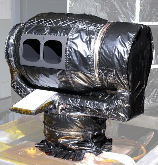 Climate Sounder Instrument for Mars Reconnaissance Orbiter